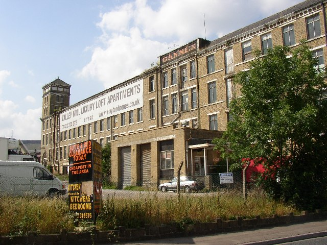 Gannex Mill, Elland. This is on the south side of the B6114. The mighty Gannex Mill is reduced to providing workshop and showroom space for small businesses, and advertising yet another conversion to apartments.